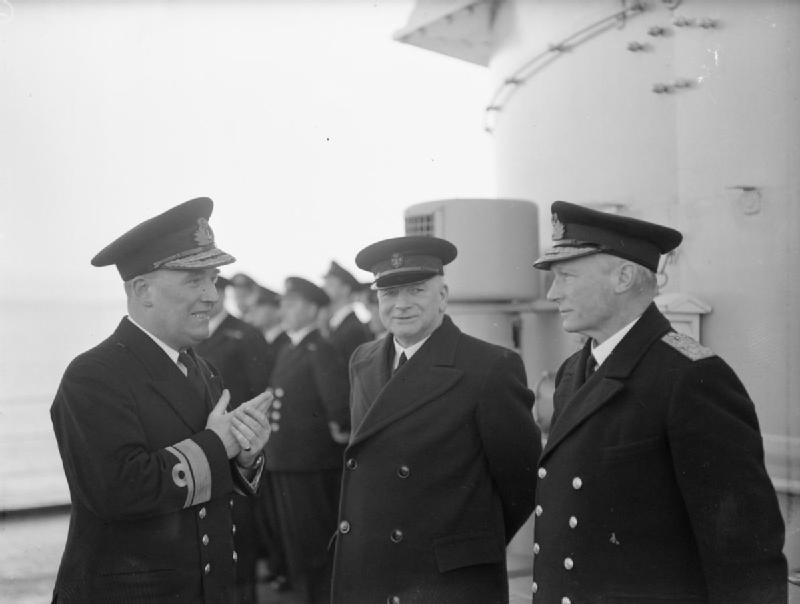 IWM caption : Left to right: Rear Admiral Robert Burnett, Flag Officer 10th Cruiser Squadron, the Right Honourable A V Alexander, First Lord of the Admiralty, and Admiral Sir John Tovey, Commander in Chief Home Fleet, chatting together on board the cruiser HMS BELFAST.